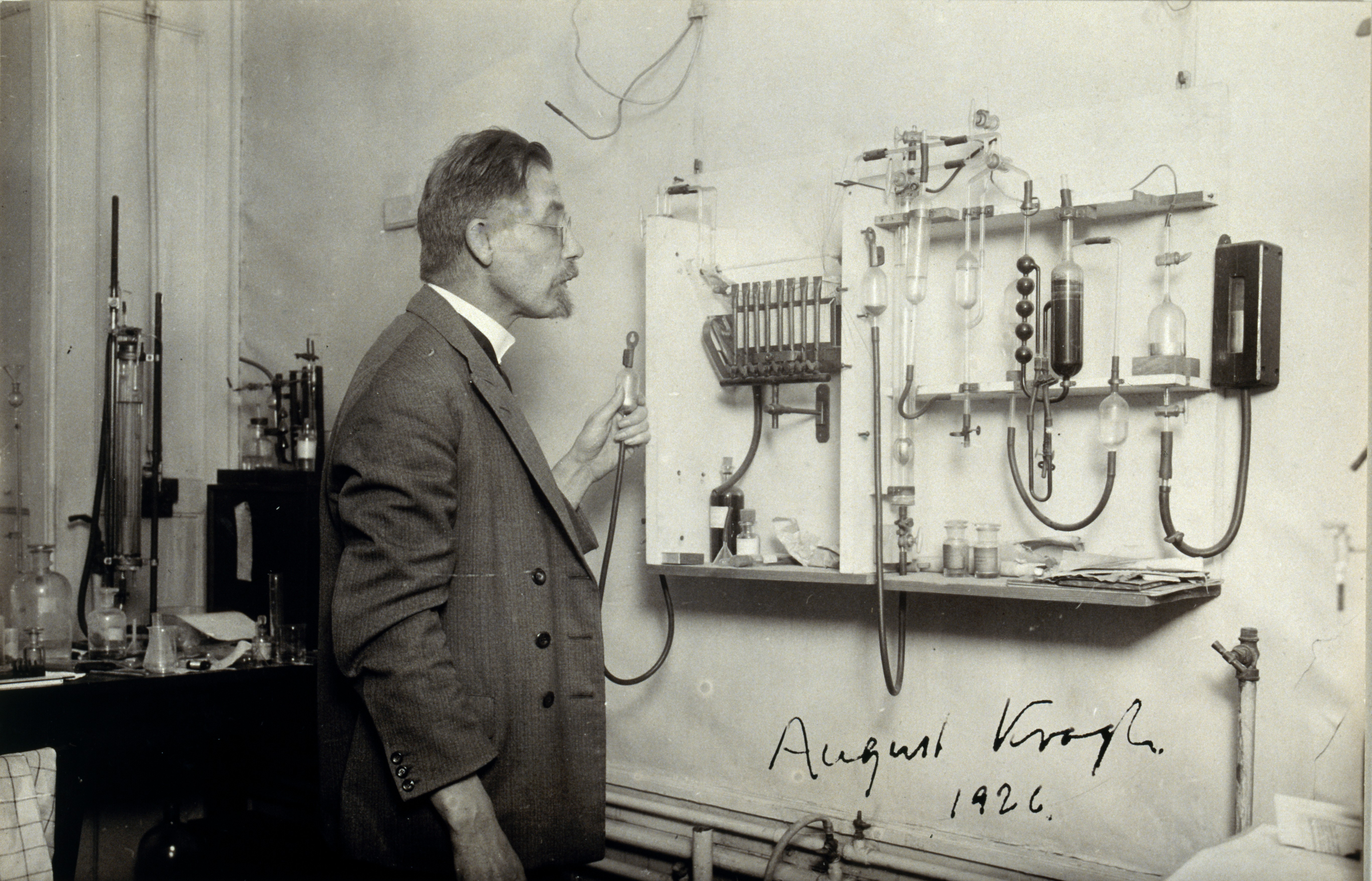 August Krogh. Photograph, 1926. Iconographic Collections Keywords: portrait photographs